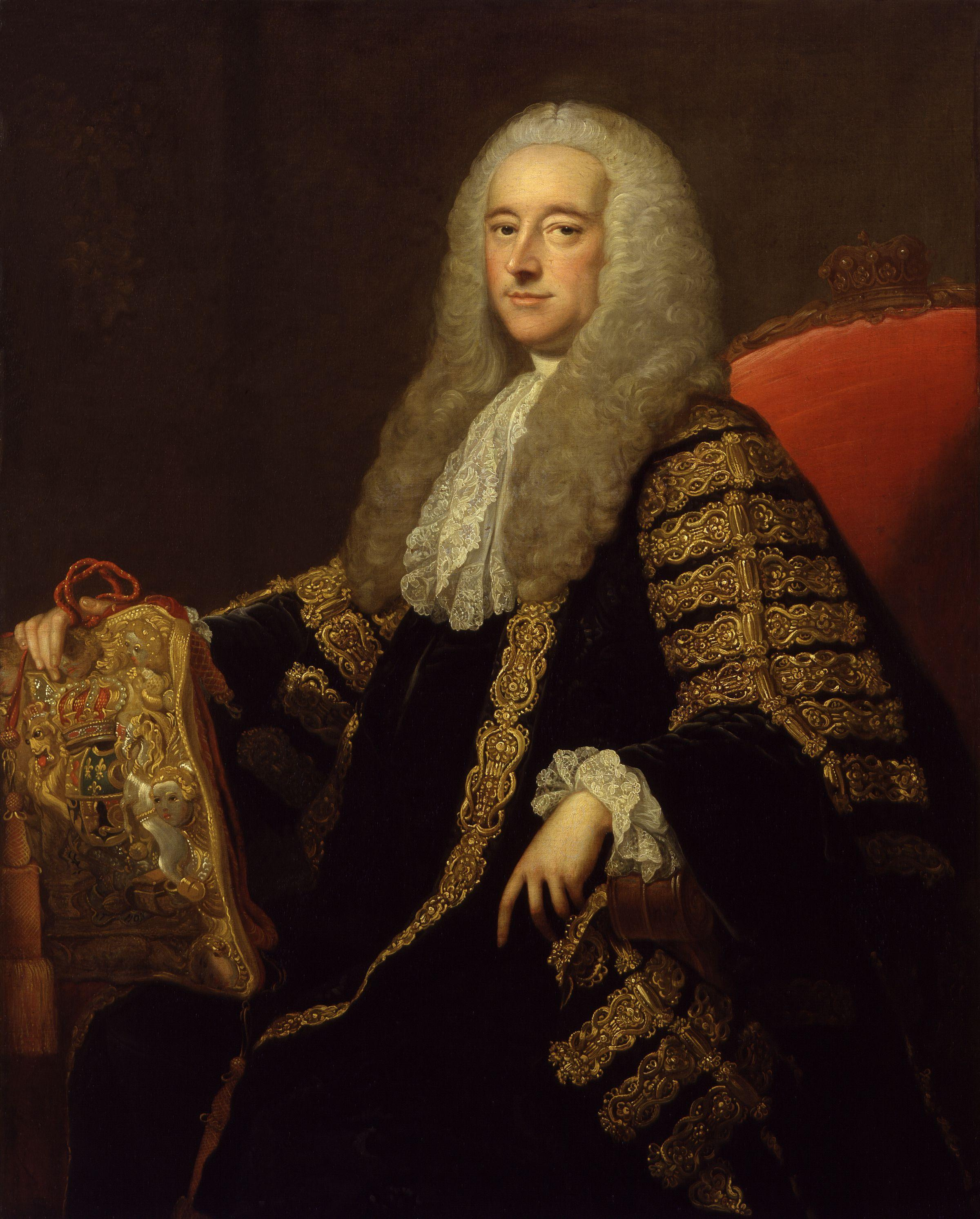 Portrait of Robert Henley, 1st Earl of Northington (c.1708-1772), Lord Chancellor